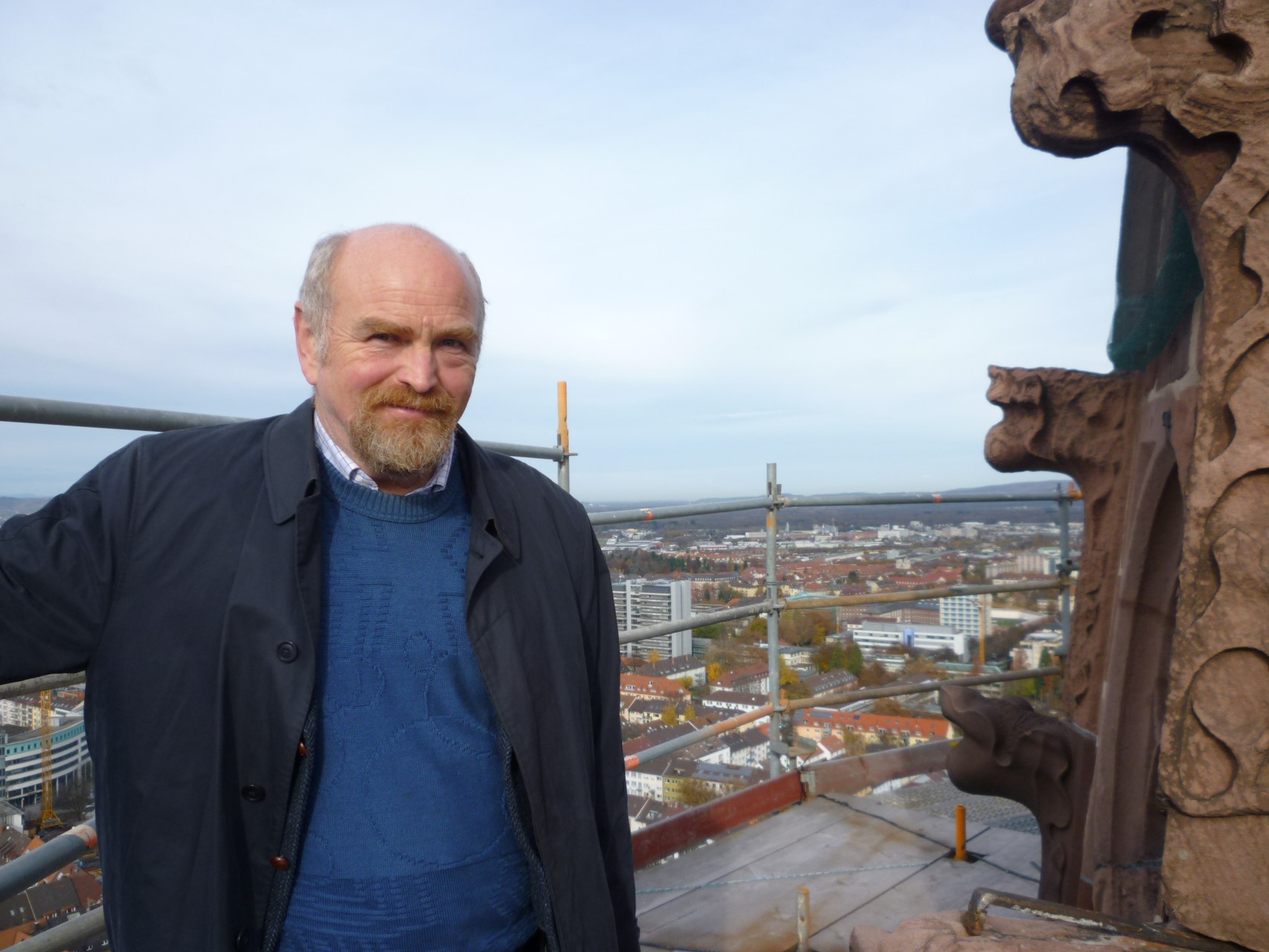 Johann Josef Boeker auf dem Turm des Freiburger Münsters